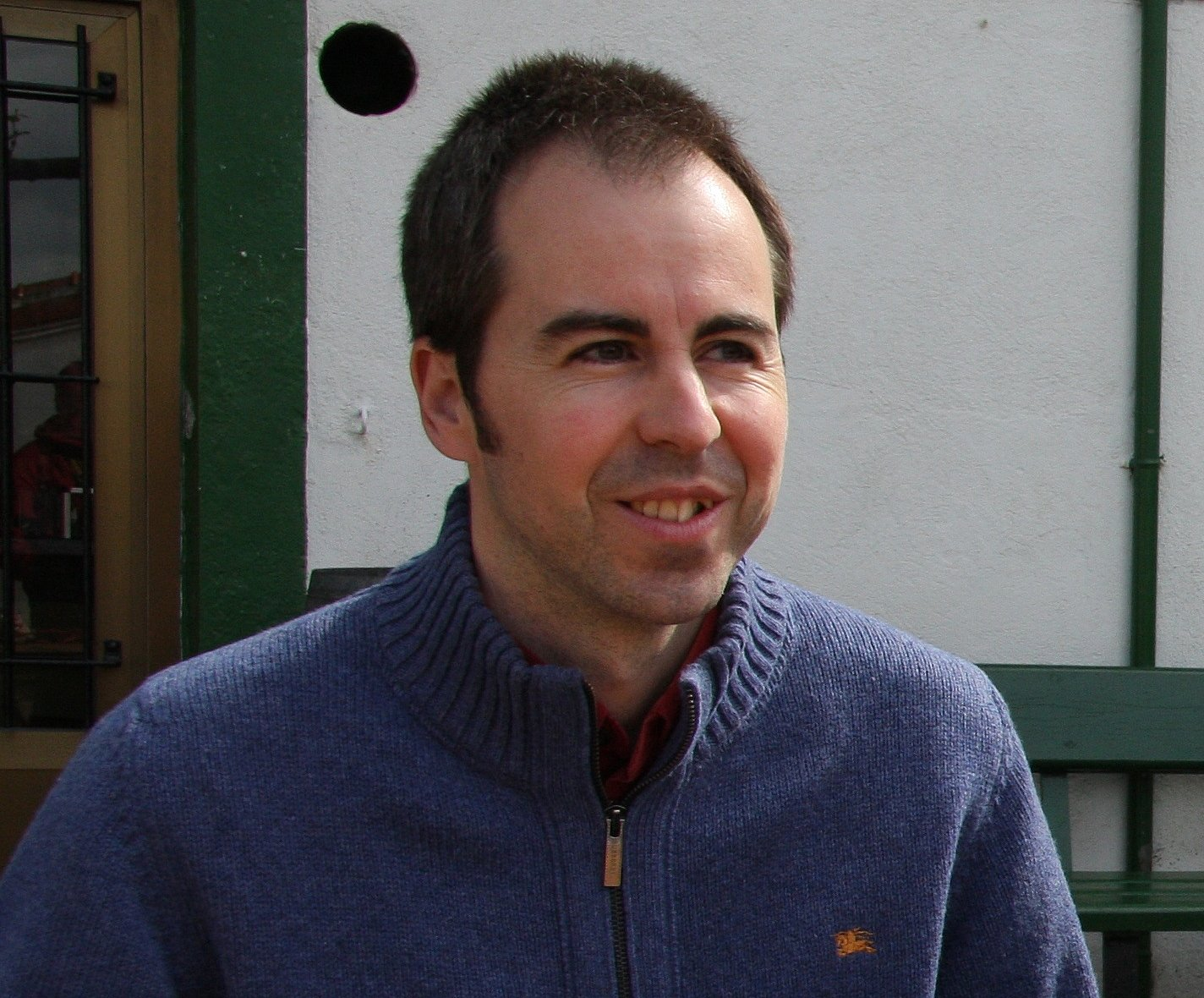 The writer of Algorta Unai Elorriaga